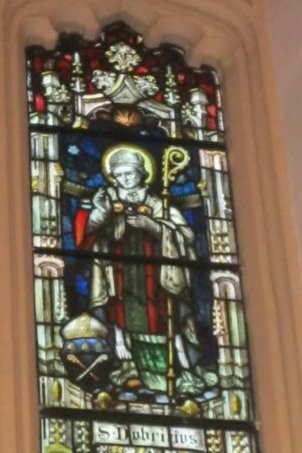 Stained glass window. Bishop and confessor, one of the greatest of Welsh saints and so is in the top row of the stained glass windows. He is usually represented holding two crosiers, which signify his jurisdiction over the Sees of Caerleon and Llandaff.According to this account he was the son (by an unnamed father) of Eurddil, a daughter of Pebia Claforwg, prince of the region of Ergyng (Erchenfield in Herefordshire), and was born at Madley on the River Wye. As a child he was noted for his precocious intellect, and by the time he attained manhood was already known as a scholar throughout Britain. He founded a college at Henllan (Hentland in Herefordshire), where he maintained two thousand clerks for seven years. Thence he moved to Mochros (perhaps Moccas), on an island farther up the Wye, where he founded an abbey. Later on he became Bishop of Llandaff, but resigned his see and retired to the Isle of Bardsey, off the coast of Carnarvonshire. Here with his disciples he lived as a hermit for many years, and here he was buried. His body was translated by Urban, Bishop of Llandaff, to a tomb before the Lady-altar in "the old monastery" of the cathedral city, which afterwards became the cathedral church of St. Peter. (from CE1913)